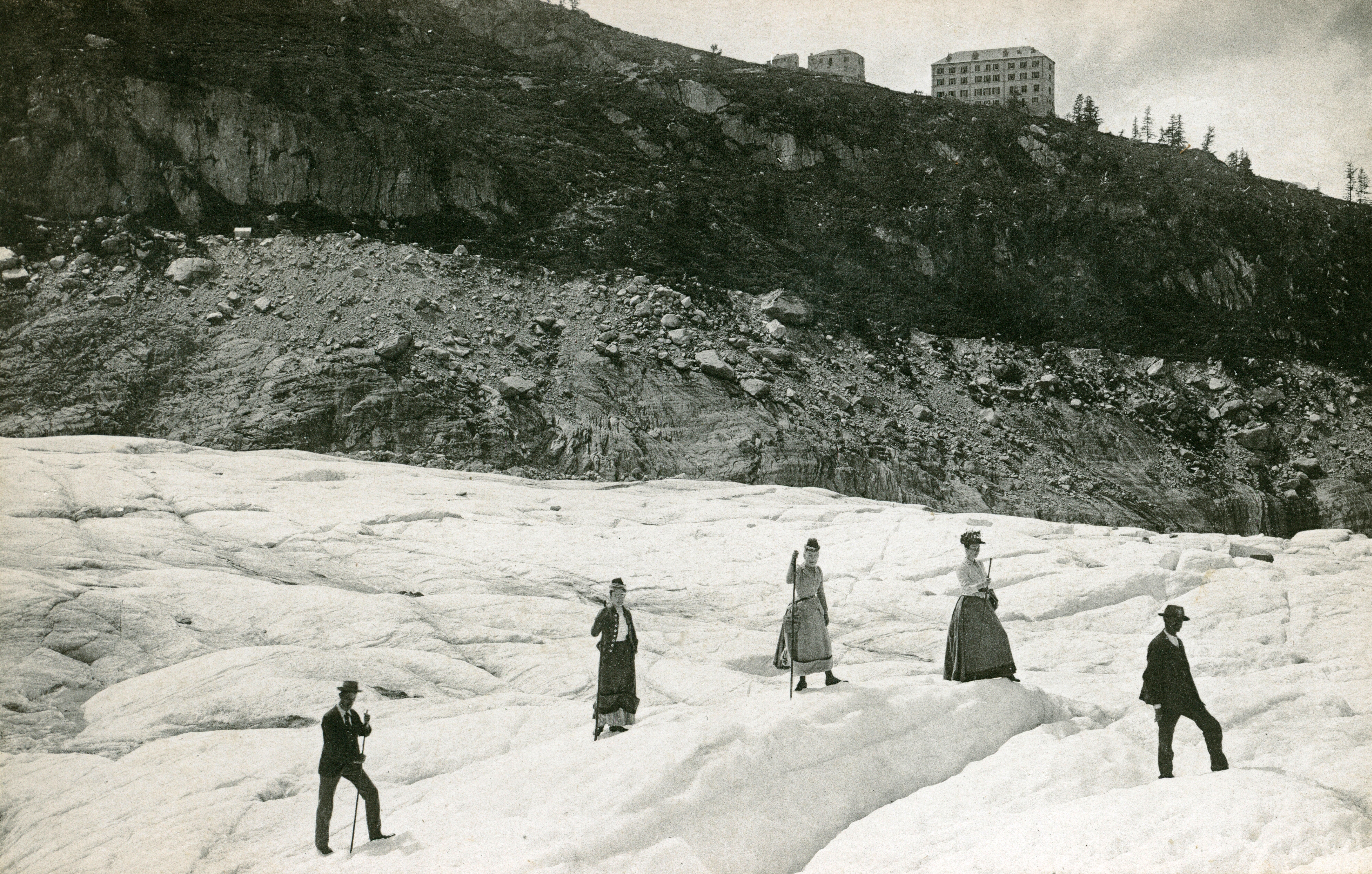 Picture showing early tourists on the glacier "Mer de Glace" by Montenvers. The "l'hôtel du Montenvers" building in the background is from 1879. The railway was build in 1909, but long before tourist where brougth by mules to the hotel and viewpoint. The picture was put on a hard cardboard and cannot be used as a postcard. Unclear if this a standaard souvenir picture or a private group picture made to order.